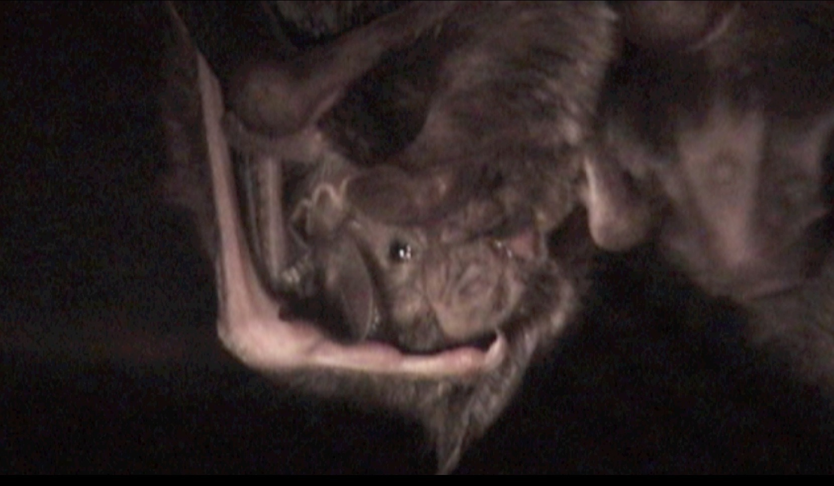 Photo taken from video shot by Gerry Carter at The Organization for Bat Conservation, Bloomfield Hills, Michigan